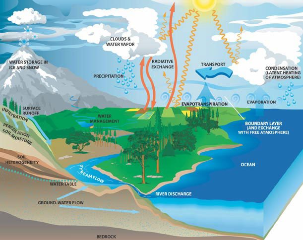 water cycle in around